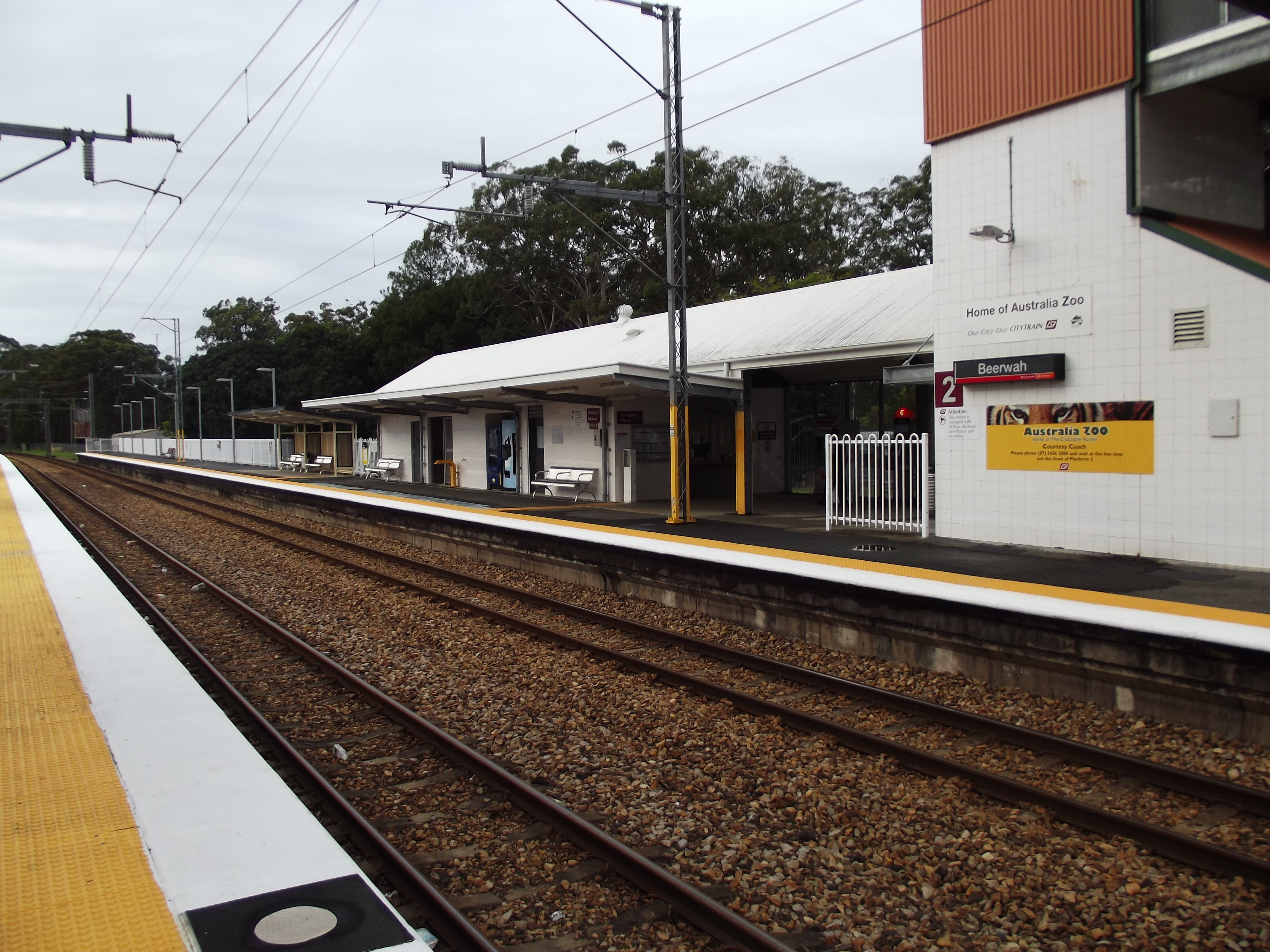 A photo of the Beerwah railway station operated by TransLink, located in Sunshine Coast, Queensland.